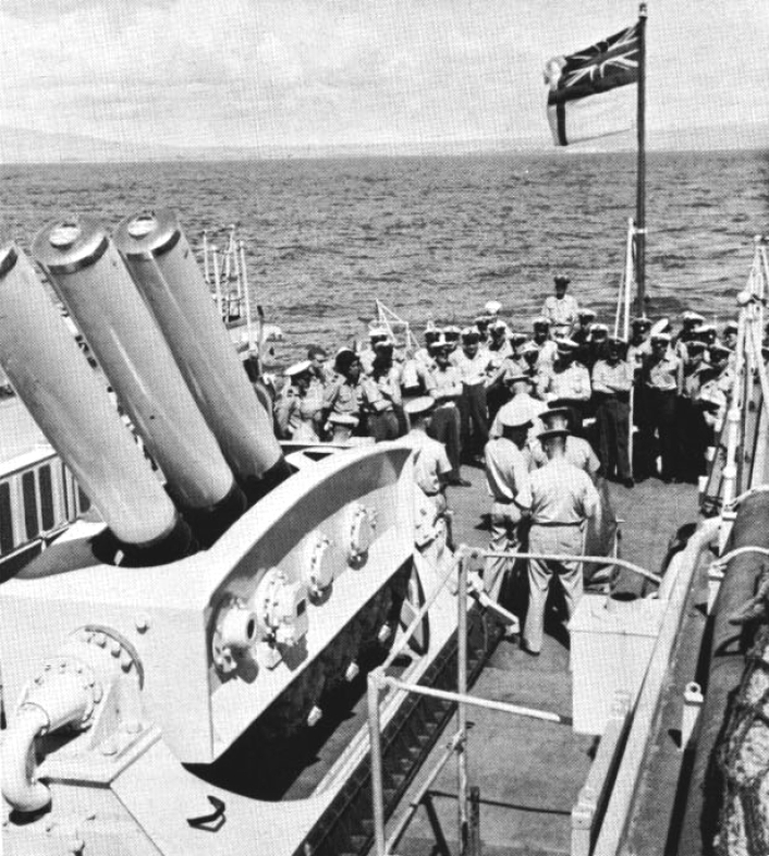 A Limbo anti-submarine mortar aboard the Royal New Zealand Navy frigate HMNZS Taranaki (F148).